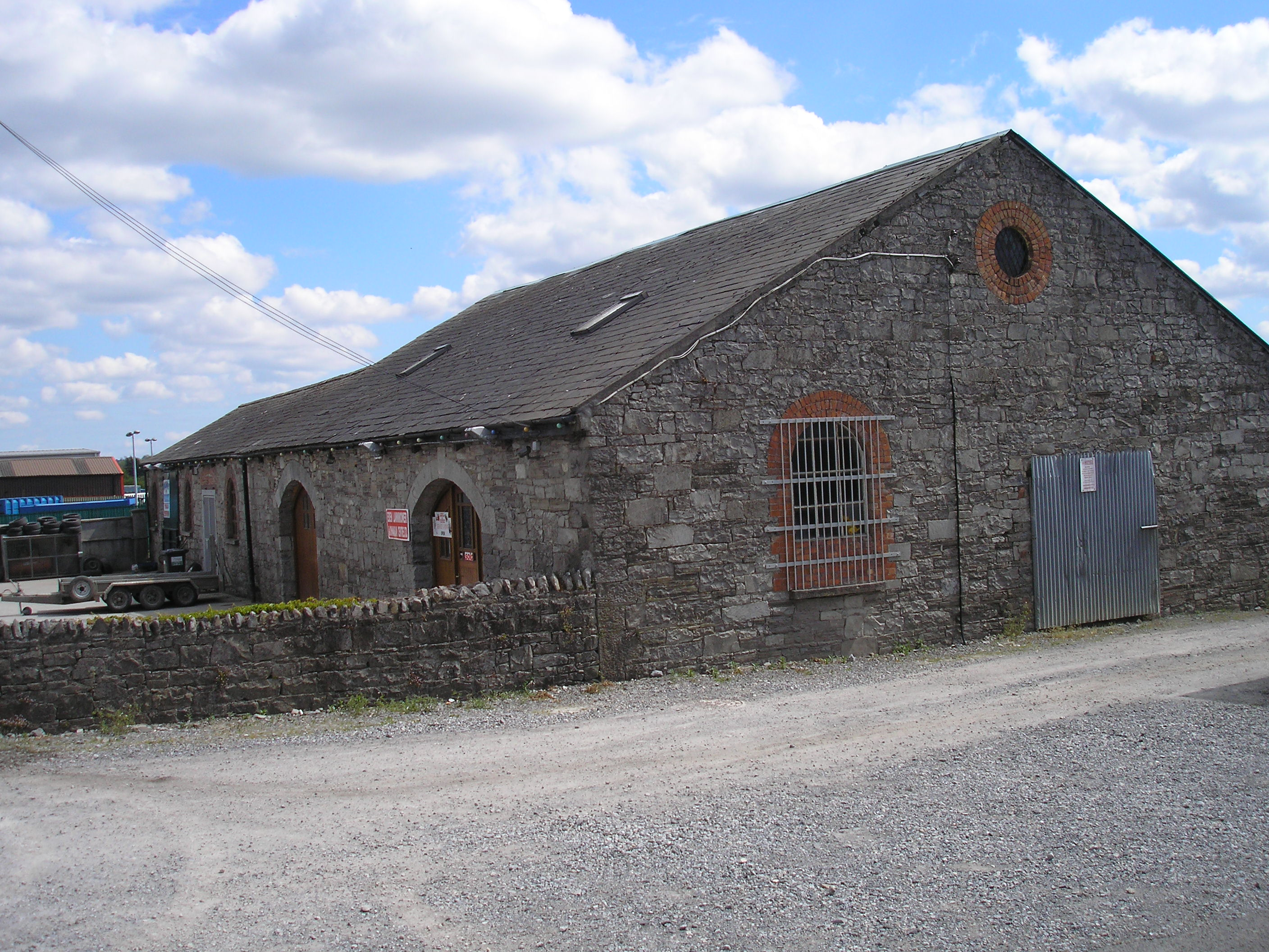 The Old Railway Station Edenderry as it looks now.